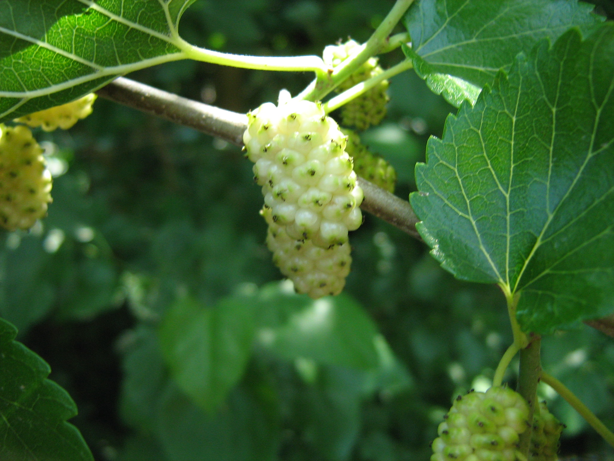 Unripe white mulberries on their branch